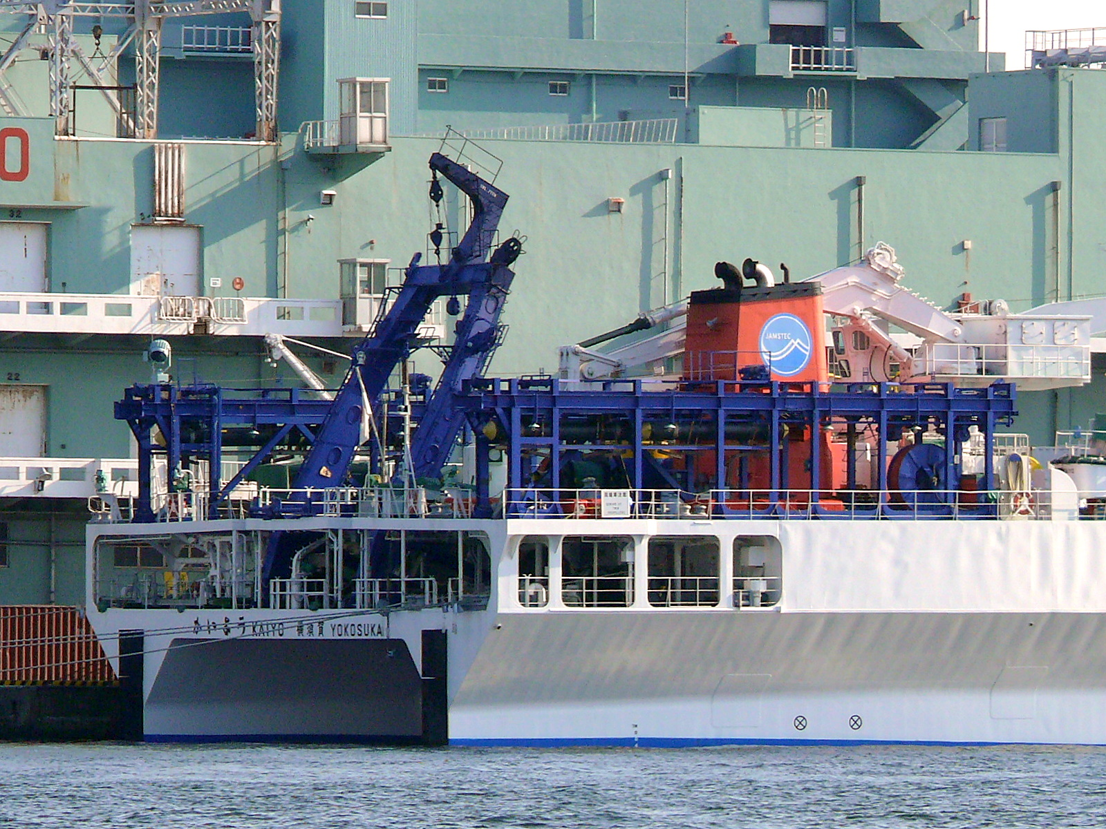 Kaiyo, Japan Agency for Marine-Earth Science and Tecnology Research Vessel (Japan).